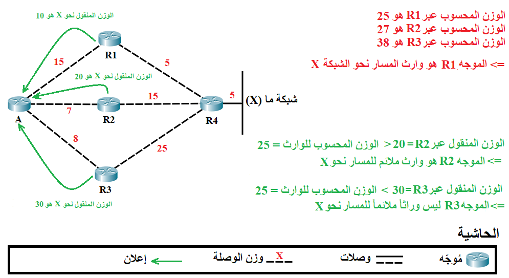 Feasible distance (FD) and reported distance (RD) in EIGRP.